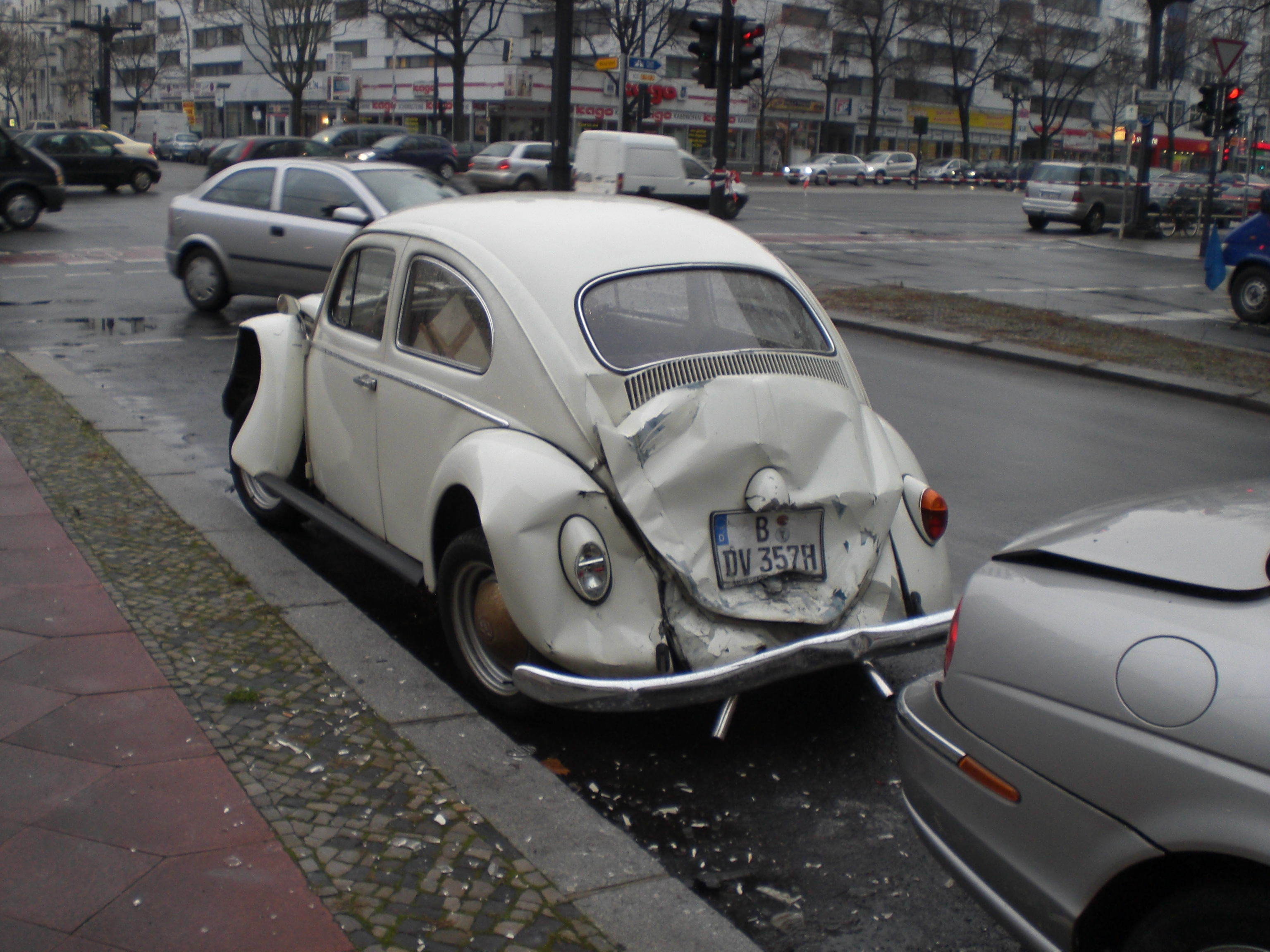 This vintage bug was demolished as a bus crashed into an Berlin office building